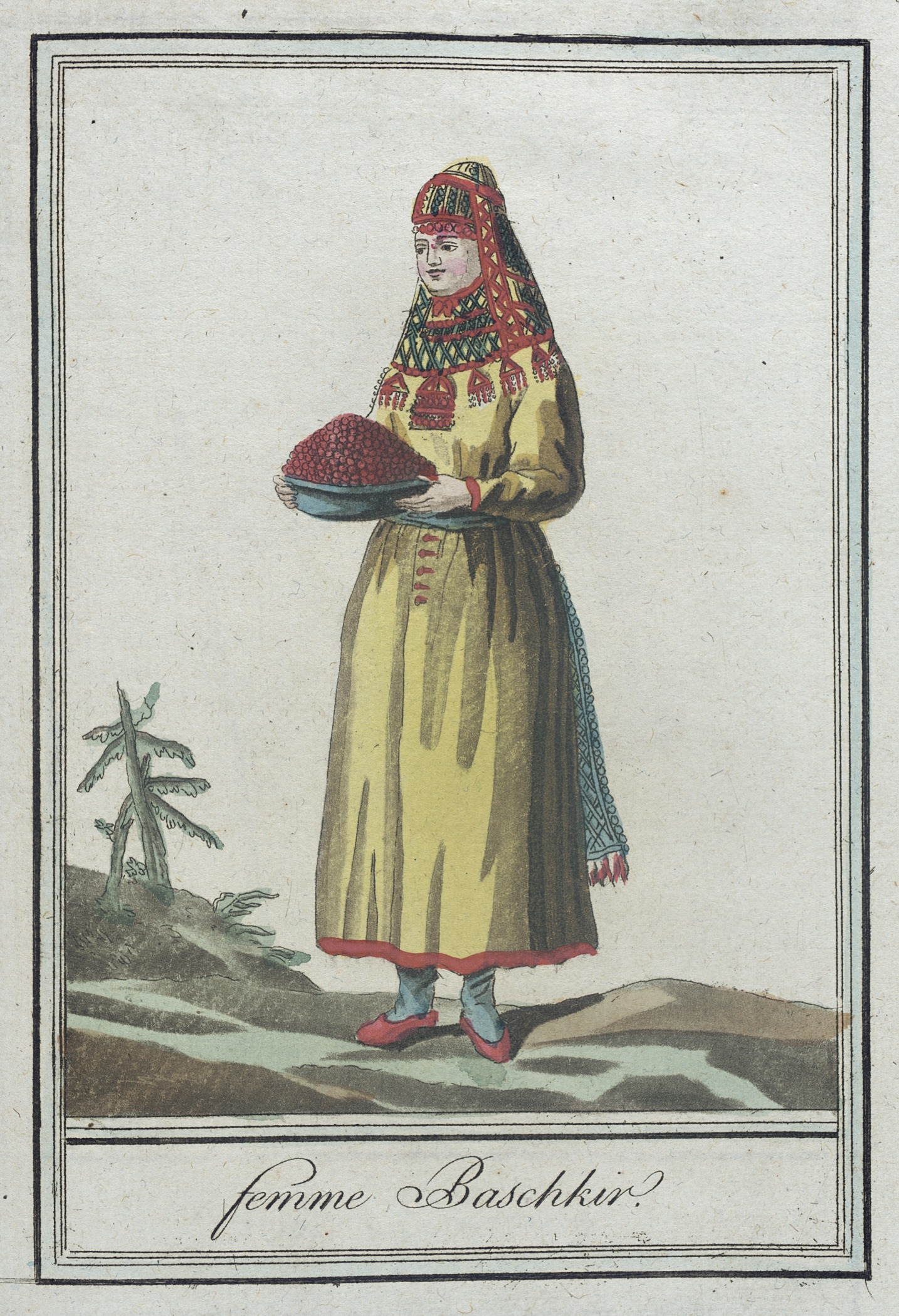 France, circa 1797 Prints; engravings Hand-tinted engraving on paper Sheet: 9 7/8 x 7 7/8 in. (25.08 x 20.01 cm); Composition: 8 1/8 x 5 7/8 in. (20.64 x 14.92 cm) Costume Council Fund (M.83.190.233) Costume and Textiles